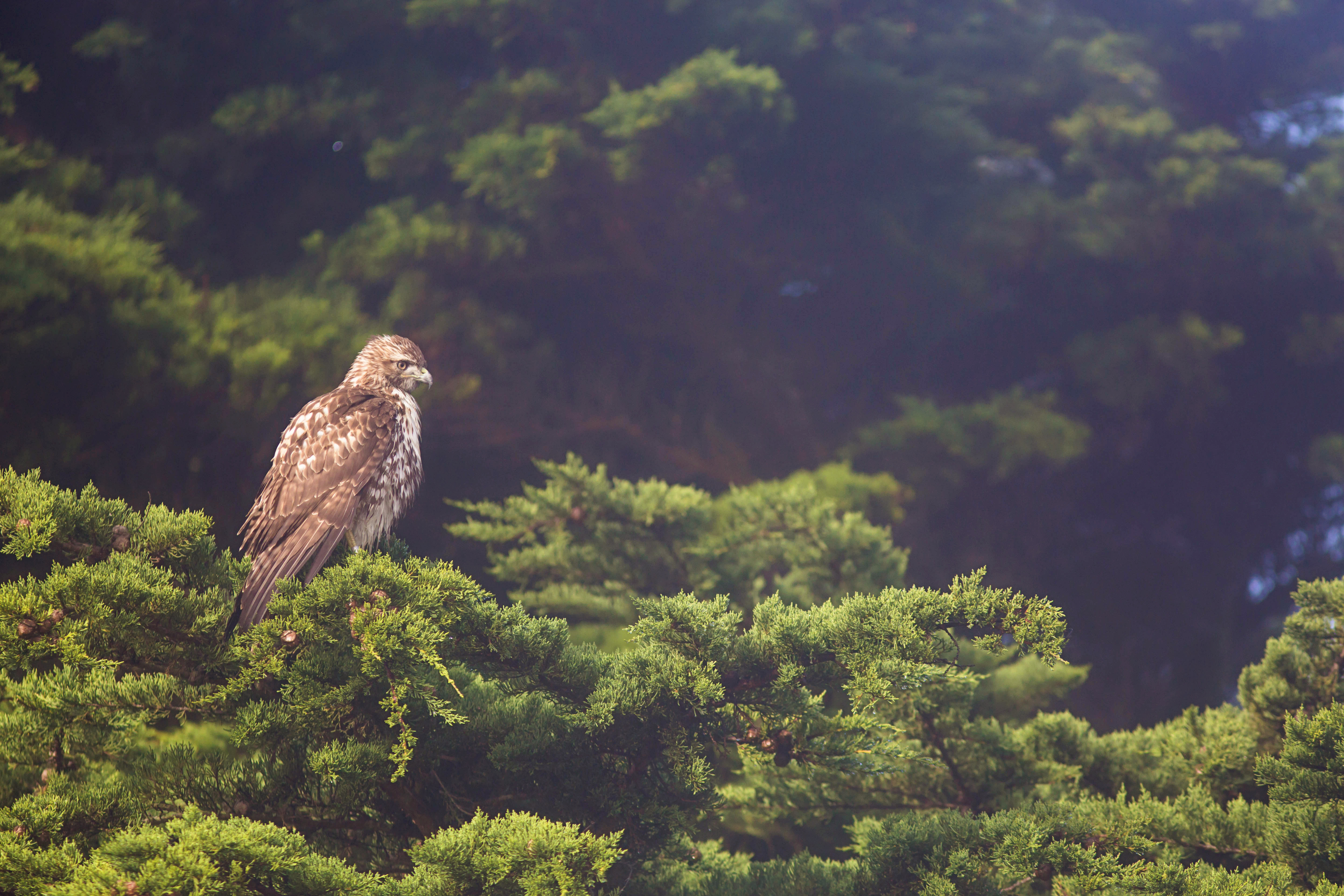 Red-Tailed Hawk